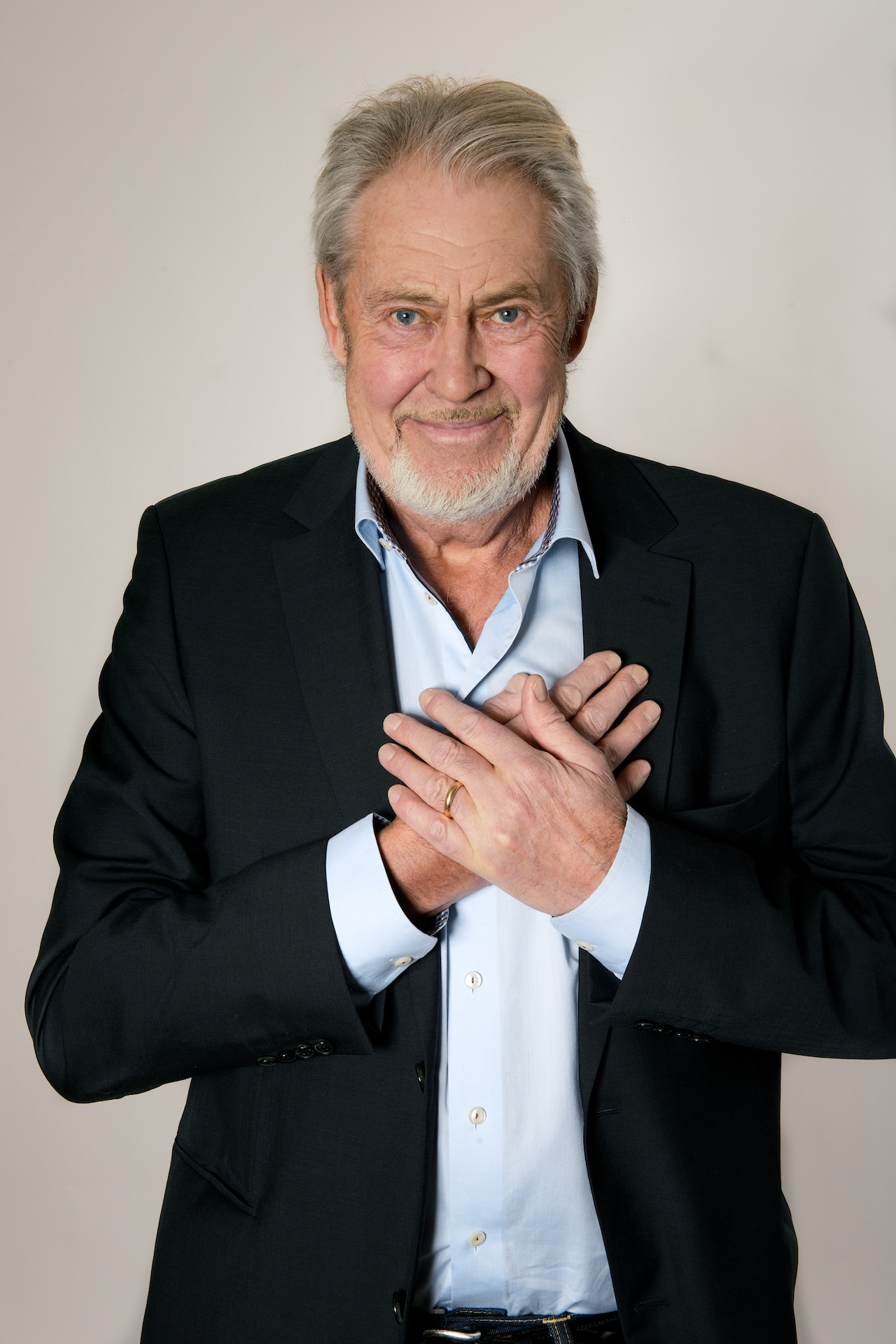 Swedish sports journalist Christer Ulfbåge in a promotional photo for the The Swedish Heart-Lung Foundation.